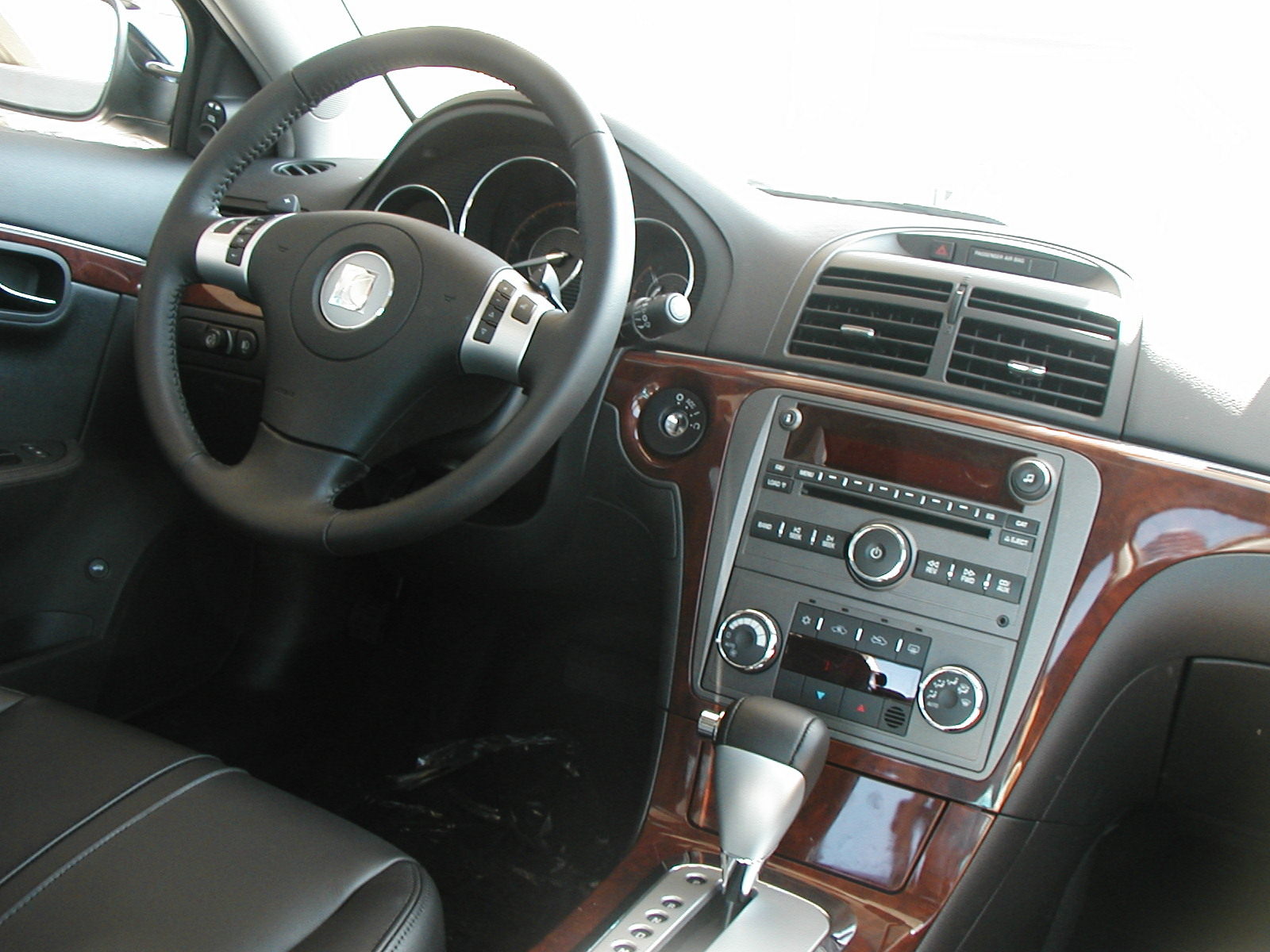 2007 Saturn Aura XR photographed in USA.